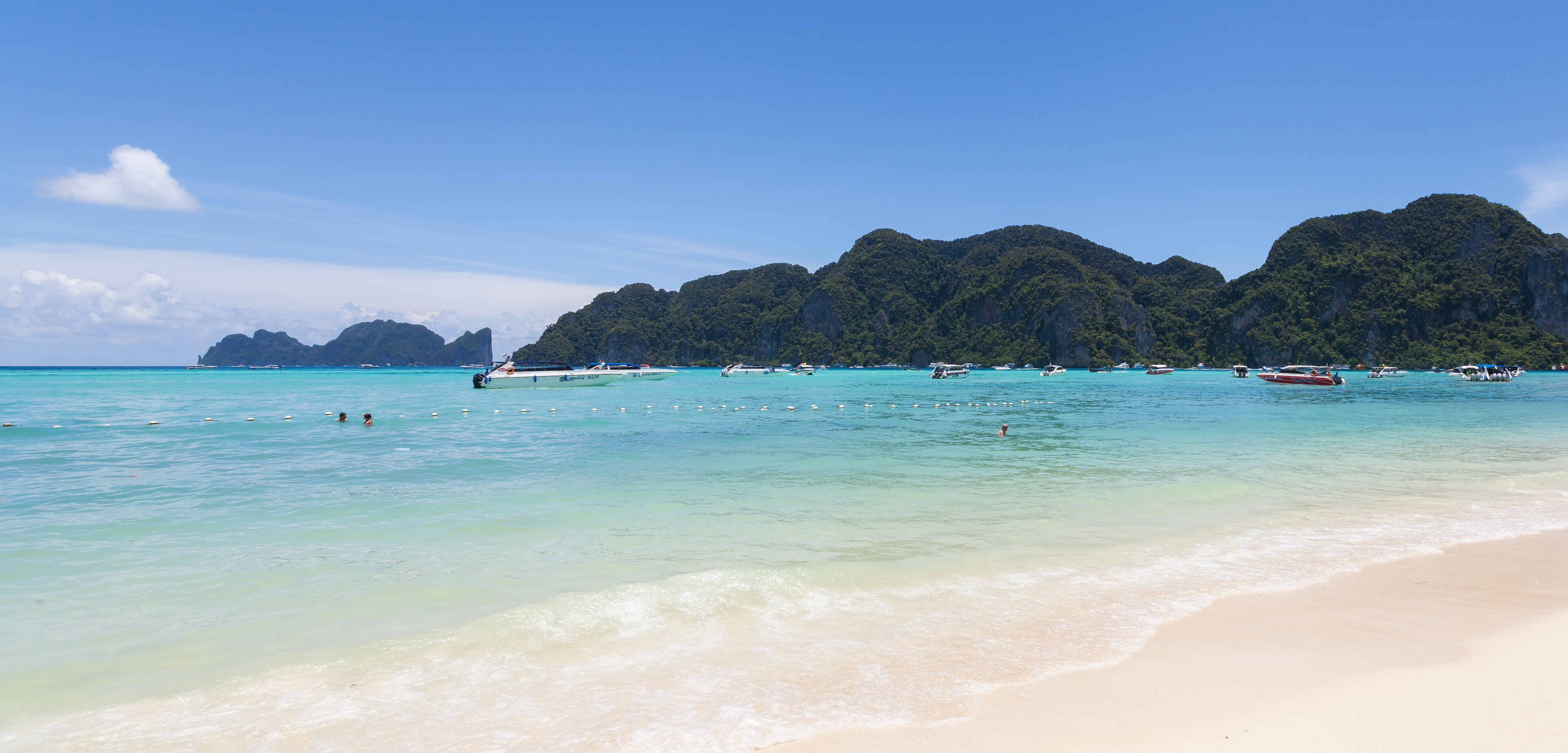 Ko Phi Phi Don Island, Thailand